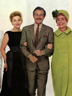 Updated Picture